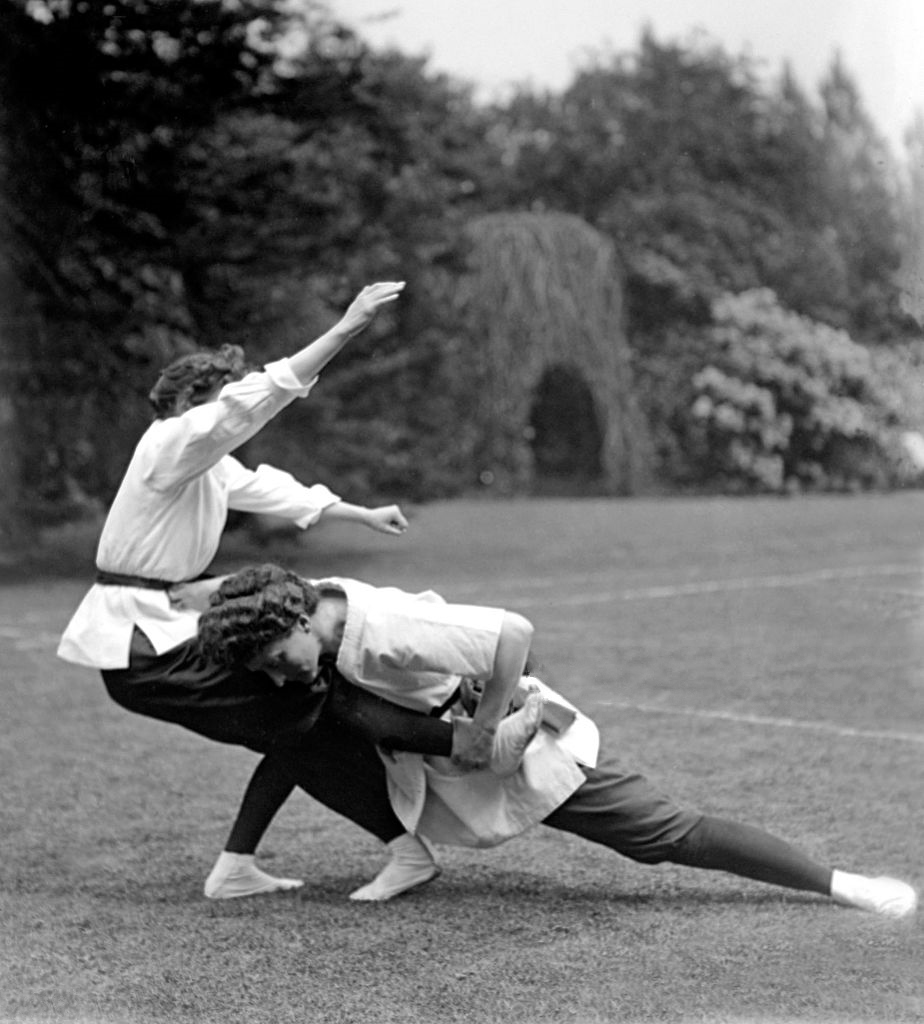 Mary, 11th Duchess of Bedford, right, shows the 2nd position of the Shimoku defence as she practices Jujutsu with Emily Watts in the grounds of Woburn Abbey, Bedfordshire, circa 1905.